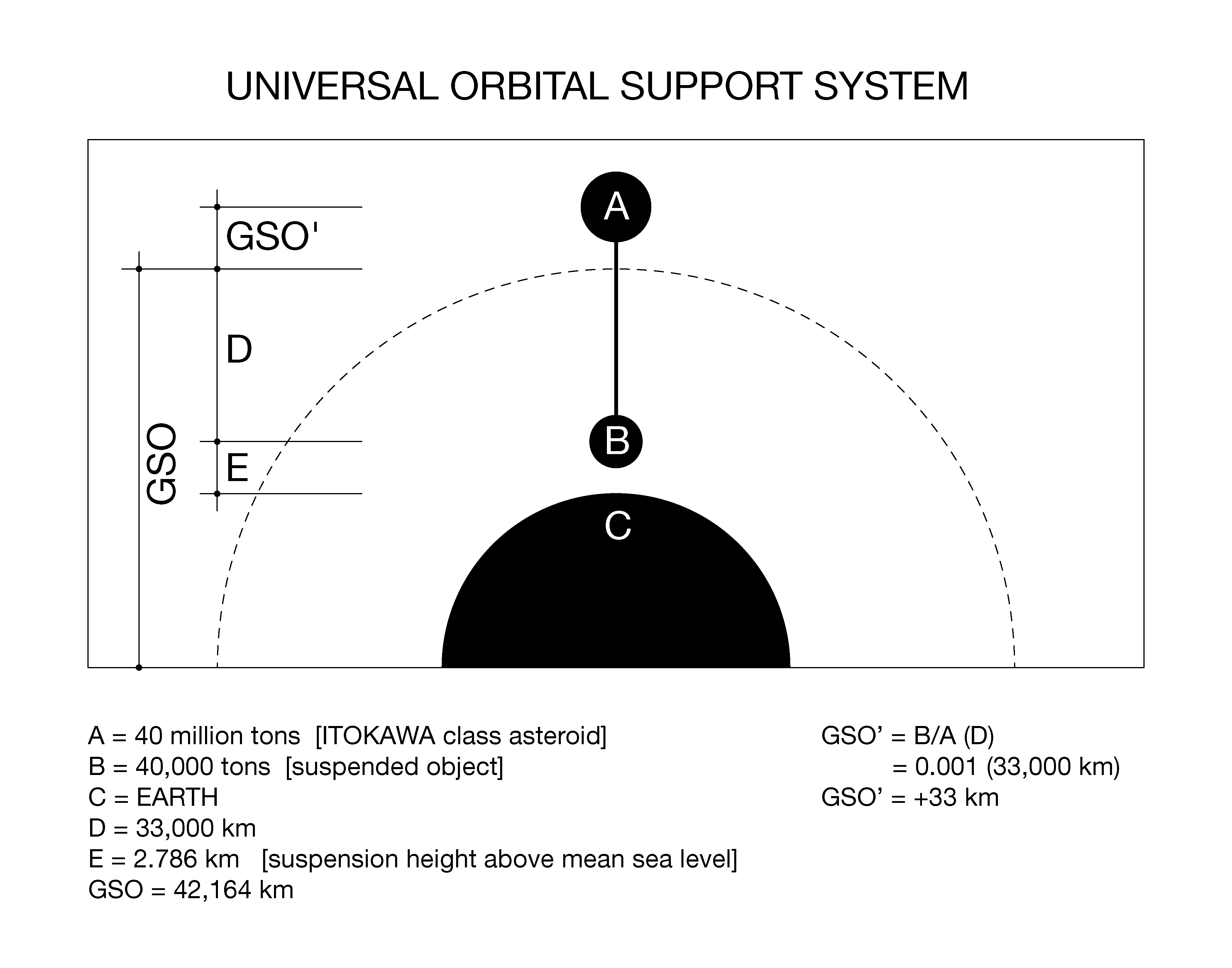 Diagram showing layout for Universal Orbital Support System